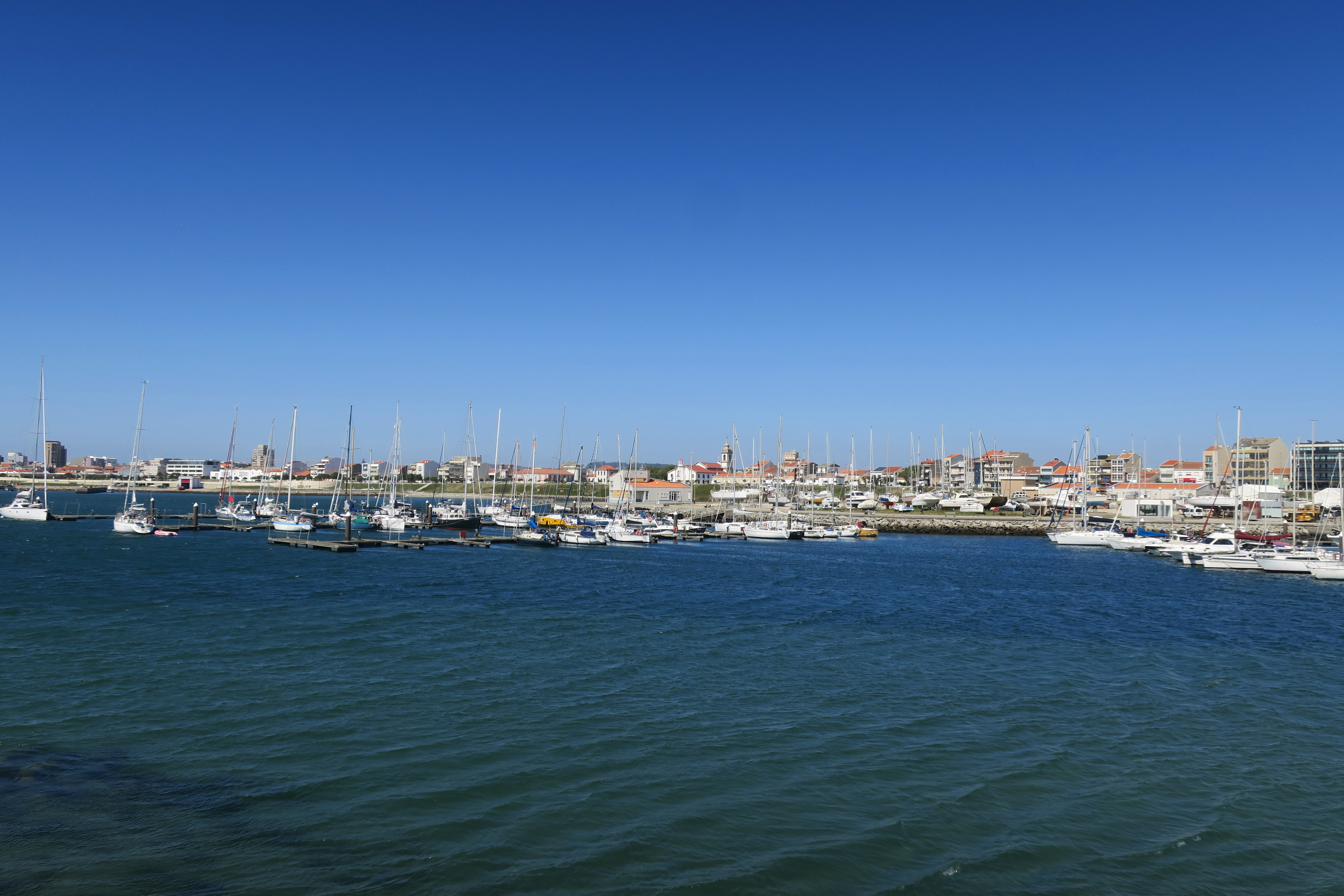 Póvoa de Varzim marina